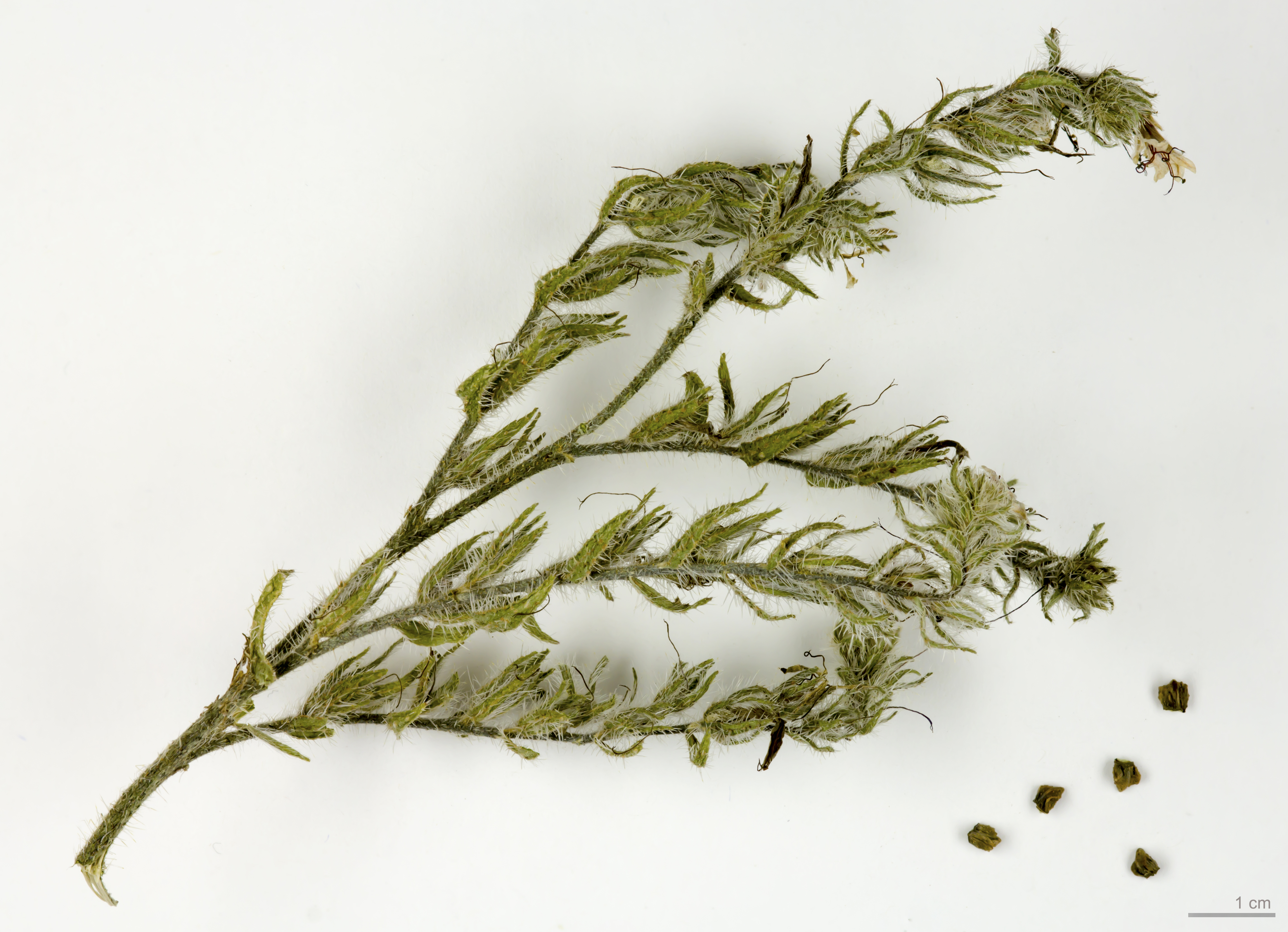 Echium asperrimum, , seeds